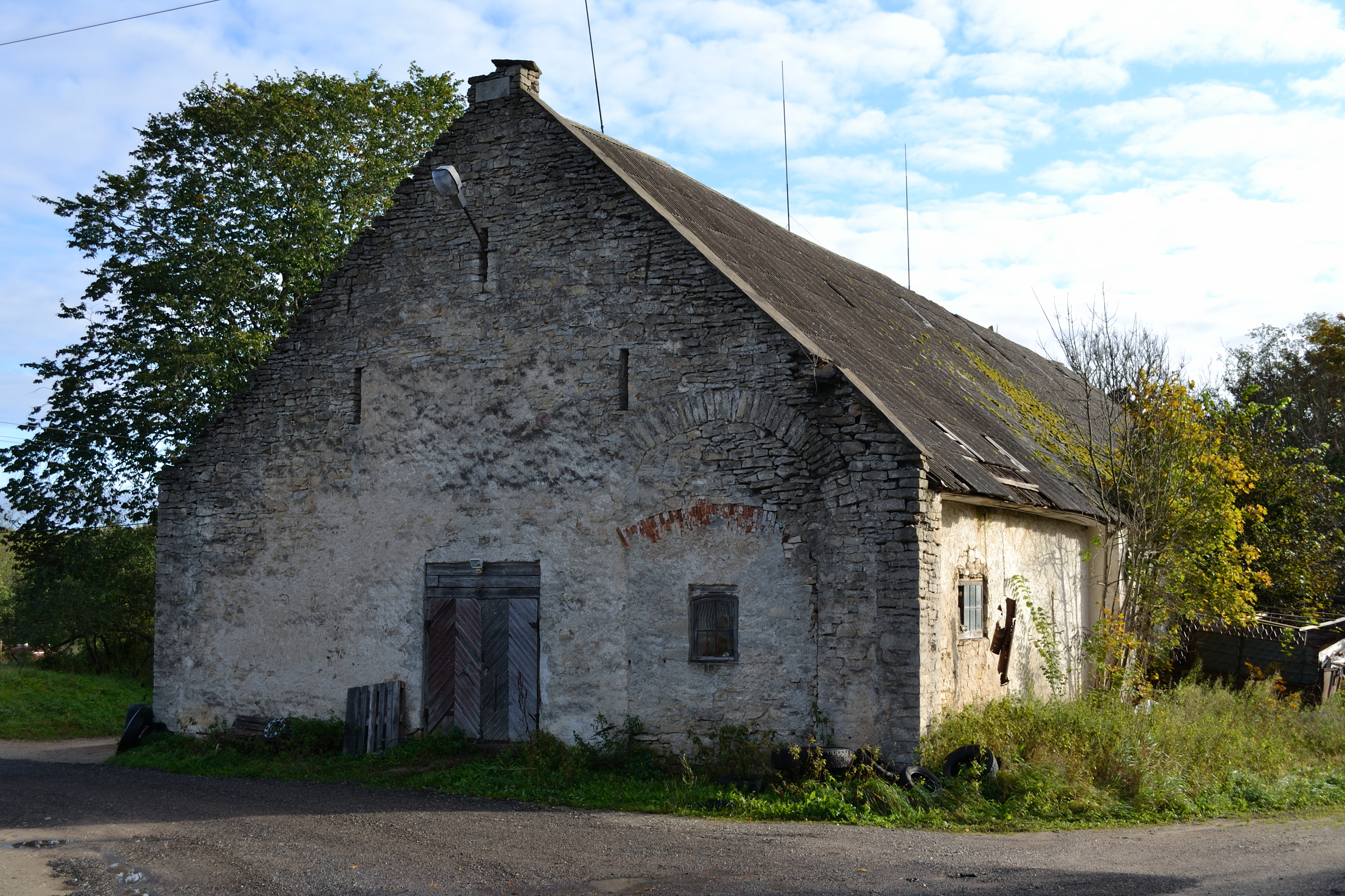 Lohu manor machinery